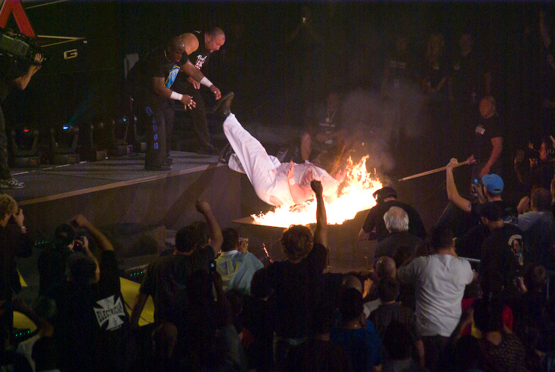 Team 3D performing a powerbomb on Abyss at the TNA PPV "Bound to Glory IV"